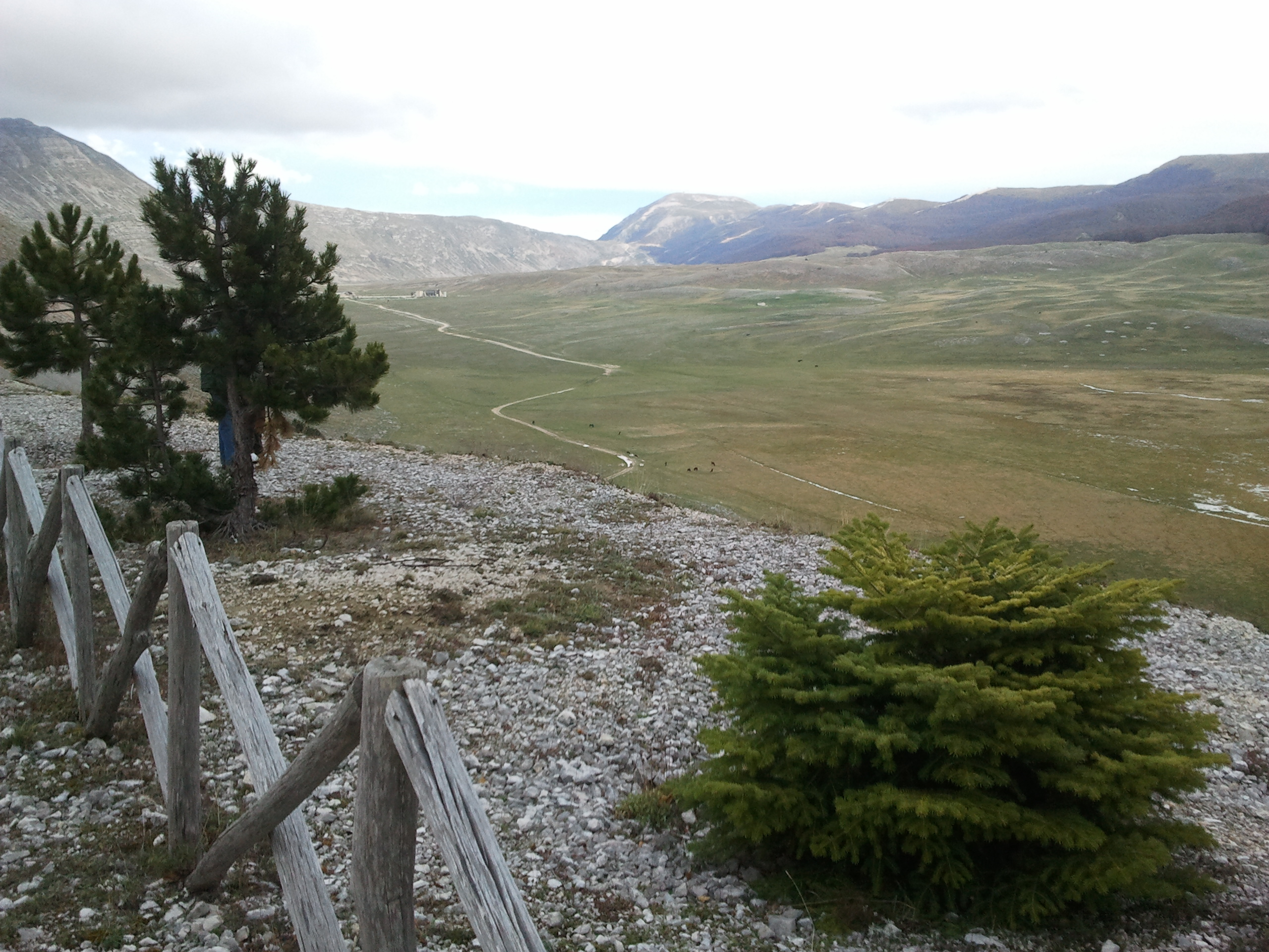 View of Campo Felice plain in autumn